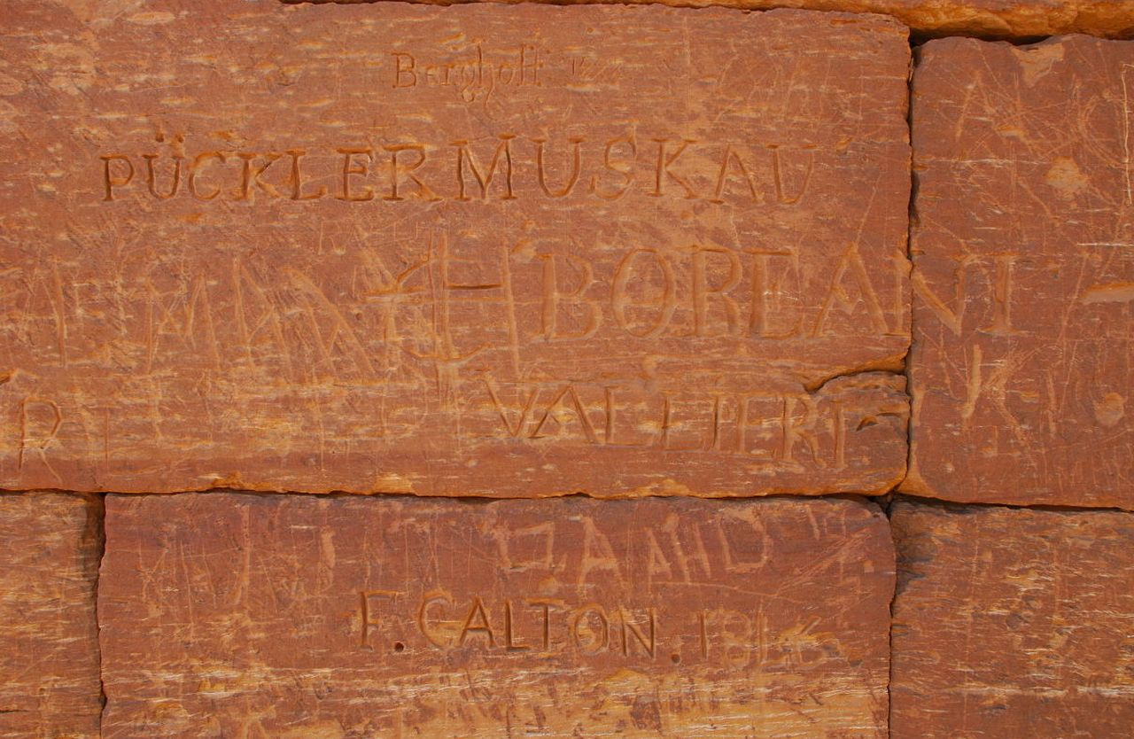 on wall chapel of pyramid north group N 6 or 7, Meroe, Sudan